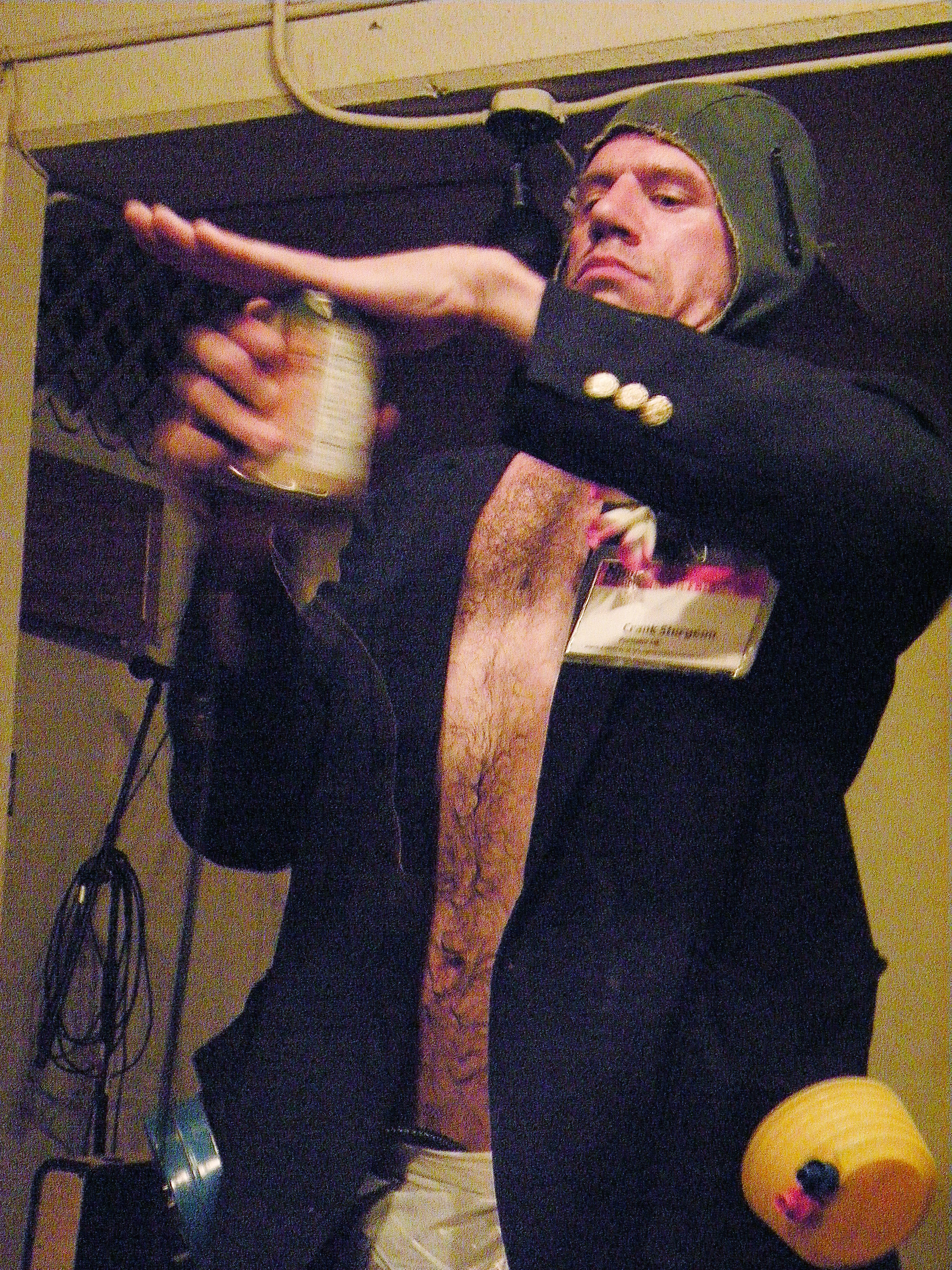 Portland, Maine-based performance artist / electronic musician Crank Sturgeon performing at the 14th Olympia Experimental Music Festival, Olympia, Washington. His performance made heavy use of contact mics.